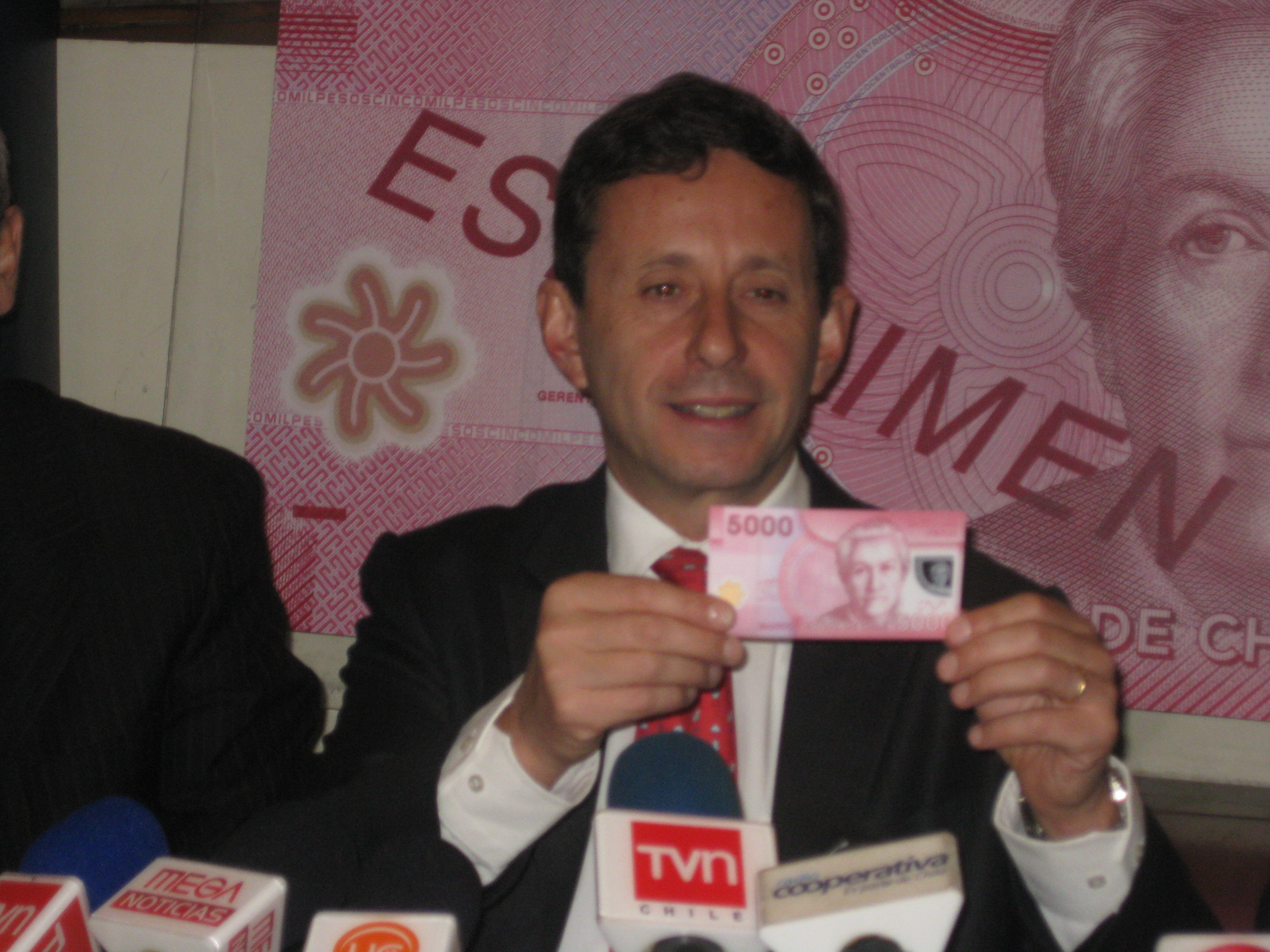 Governor of the Central Bank of Chile introducing the new $5,000 bank note.